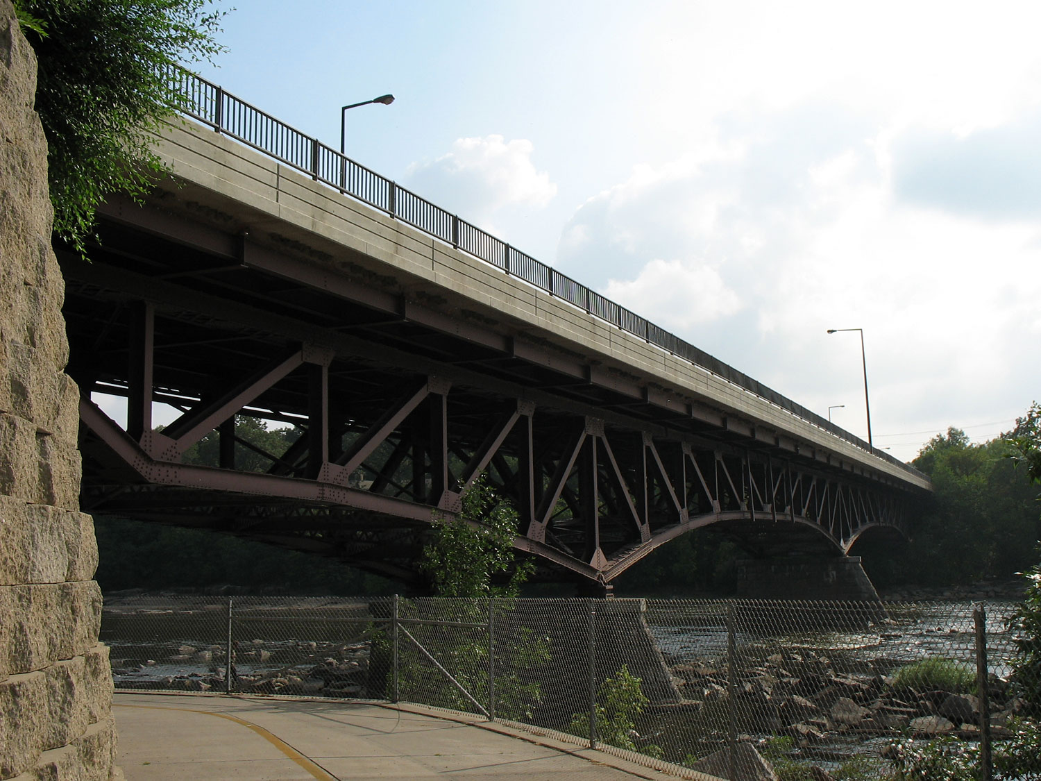 The Sauk Rapids Bridge, shown from the east bank of the Mississippi River, north of the bridge on August 18, 2006. Category:Images of Minnesota